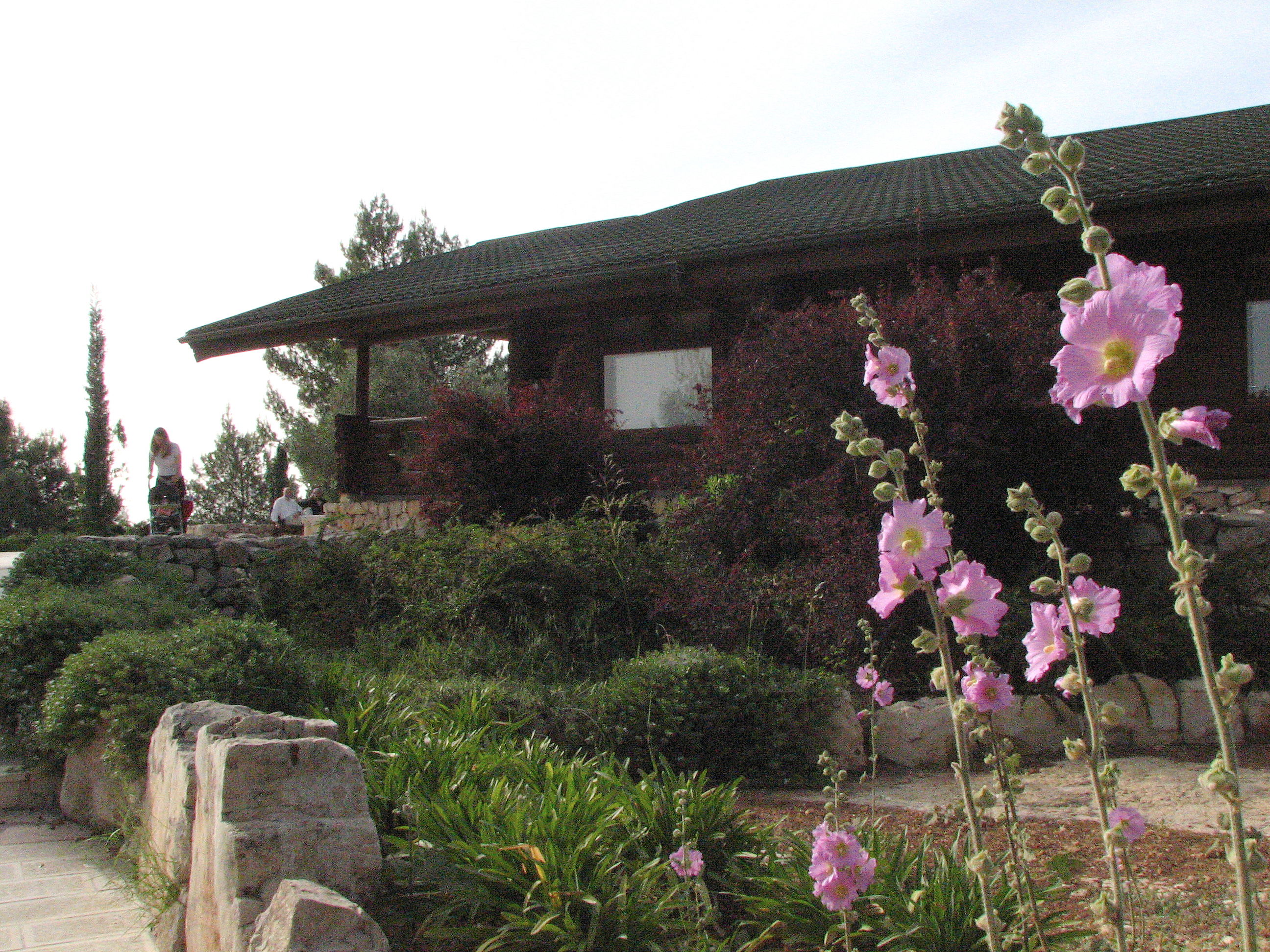 Wooden cabin at Yad HaShmona, a Finnish Christian moshav in the Judean Hills, Israel